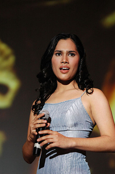 Isabella Gonzalez, daughter of Kuh Ledesma, Philippine pop and jazz singer.